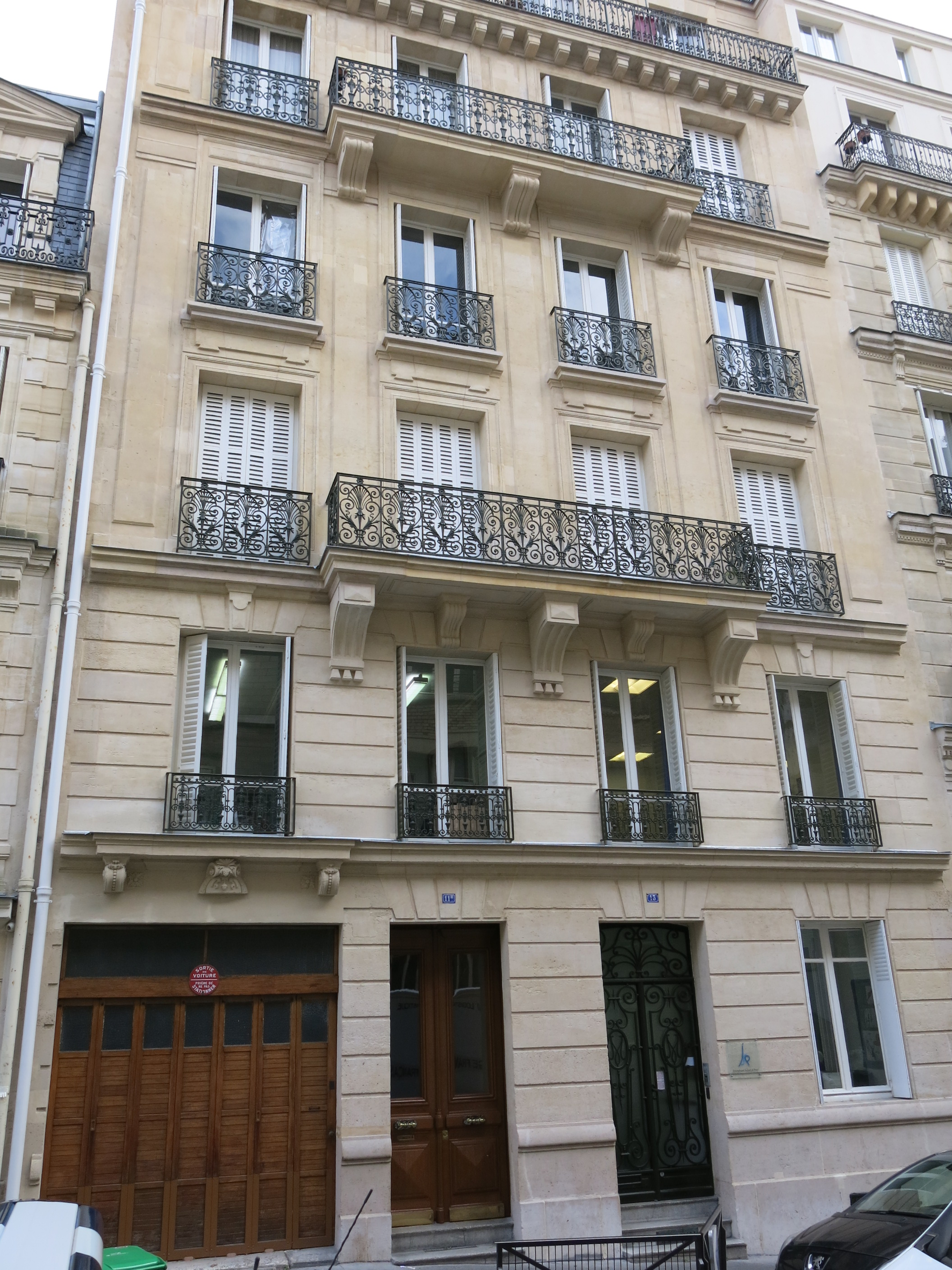 Building at 13 rue Chardin, Paris 16th arrond. - International School of Paris secondary school